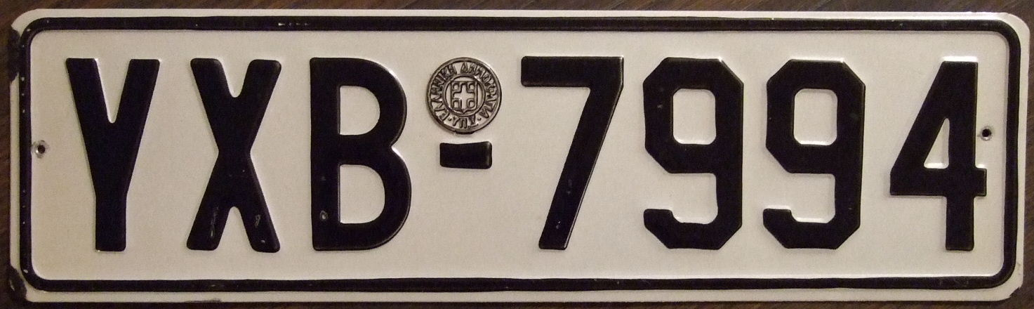 License plate of Greece without blue strip